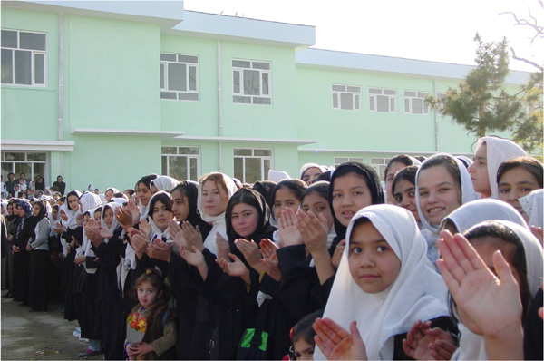 USAID Administrator Natios at December 23 Briefing: "This is an example of the schools we've rebuilt. We've rebuilt 142 schools, daycare centers and vocational education schools. This is the Sultan Razia Girls School.... There are 5,000 teenage girls in it. This is a joint Civil Affairs unit/AID project. Civil Affairs in the U.S. Military."